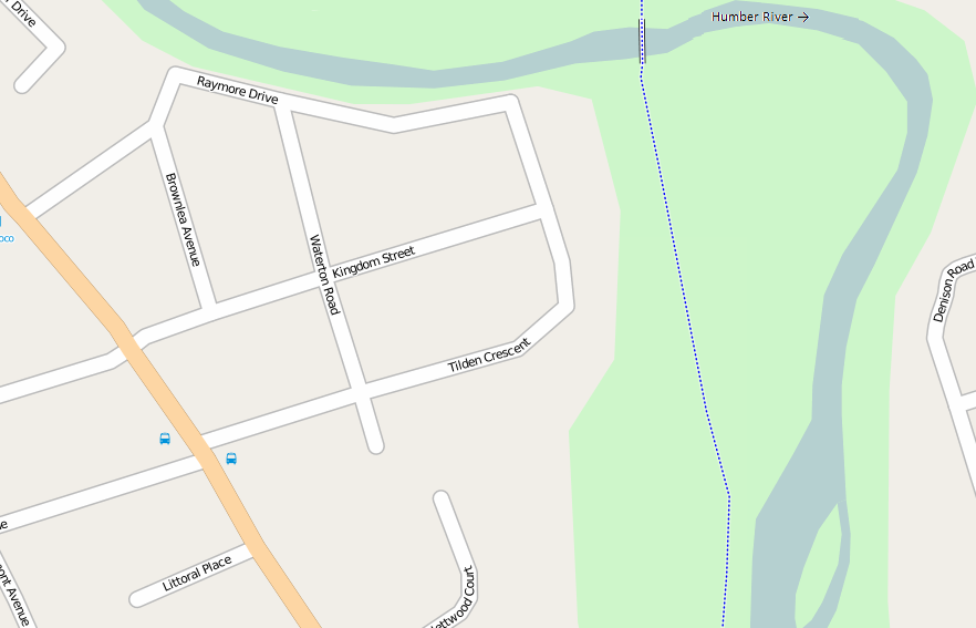 This map of Raymore Drive was created from OpenStreetMap project data, collected by the community. This map may be incomplete, and may contain errors. Don't rely solely on it for navigation.